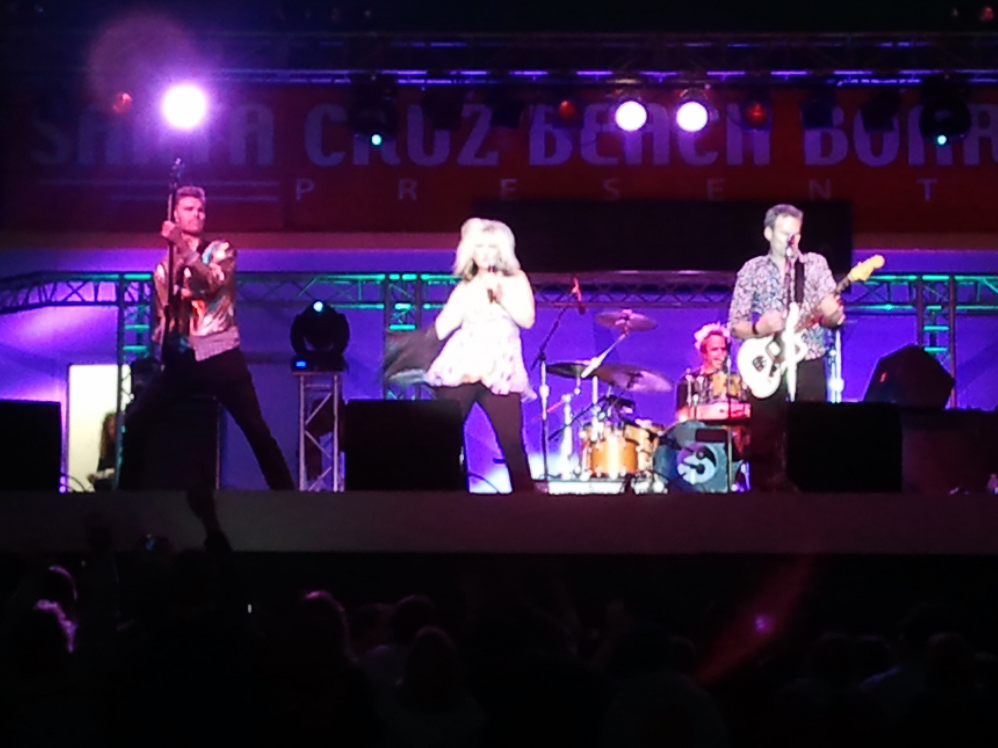 American band Animotion live in July 2012